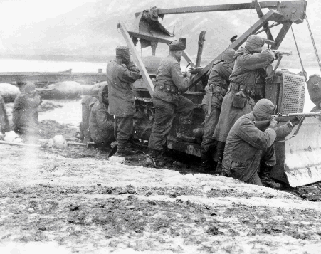 Elements of the 2d Engineer Combat Battalion, 2nd Infantry Division, U.S. Army, fighting a rear guard action during the Battle of Kuni-Ri in the Korean War.